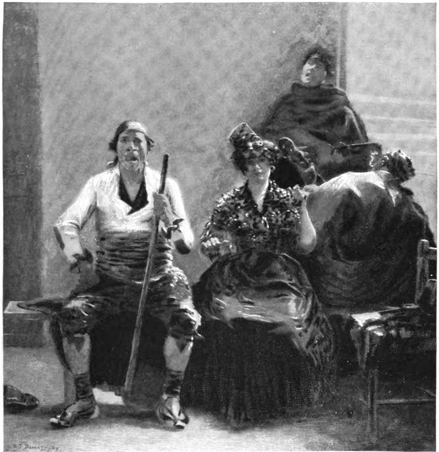 "A Quartette" by William T. Dannat (1853–1929)